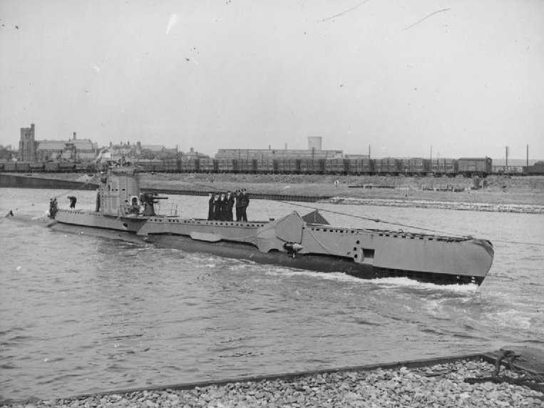 British U class submarine HMSM VITALITY moving away from the quayside with some of the crew on deck